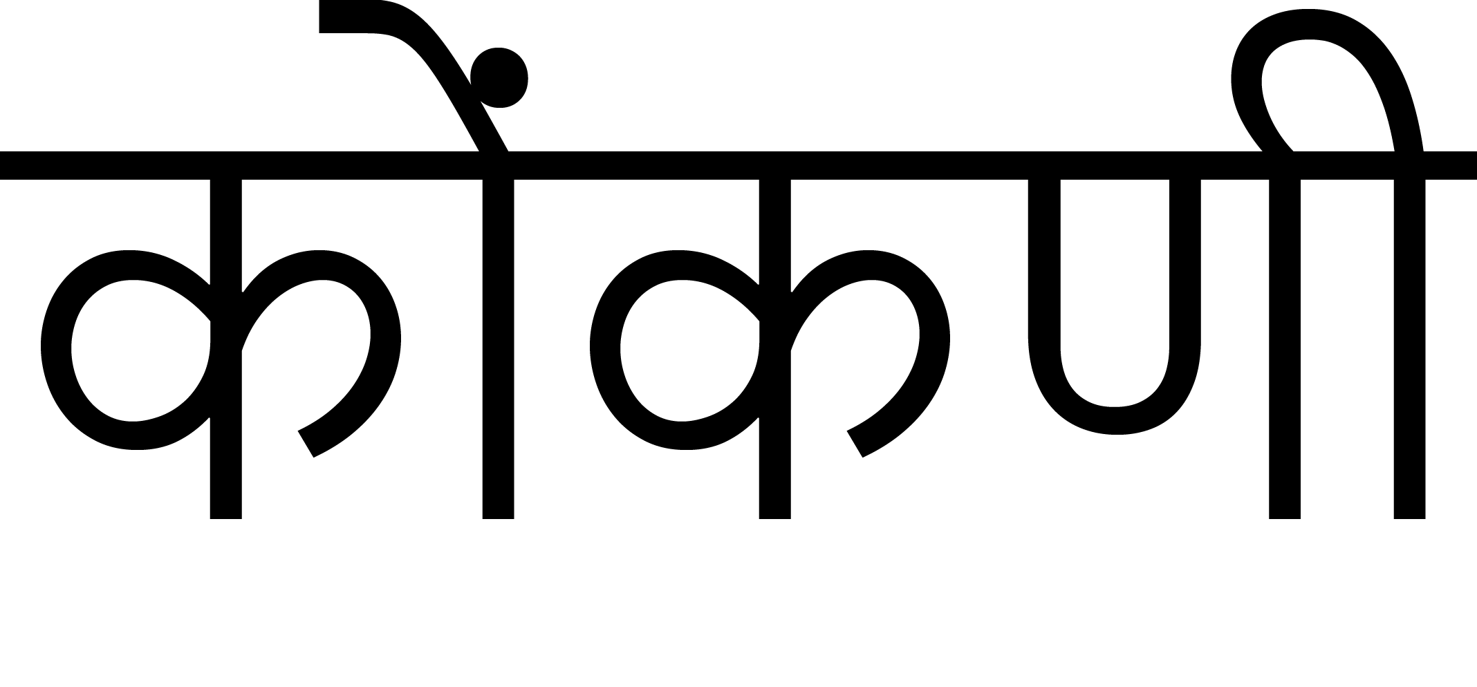 "Konkani" in Devanagari script